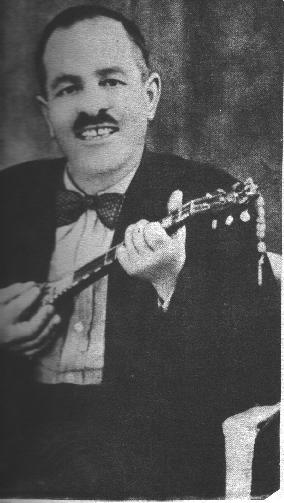 This is an old black and white picture of George Batis, famous Greek composer and singer